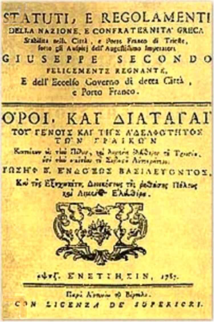 The first printed Charter of the Greek Community of Trieste, 1787 - Stipulations and Orders of the Genre and the Fraternity of the Greeks. Printed Charter of Greek Community of Trieste, obtained from